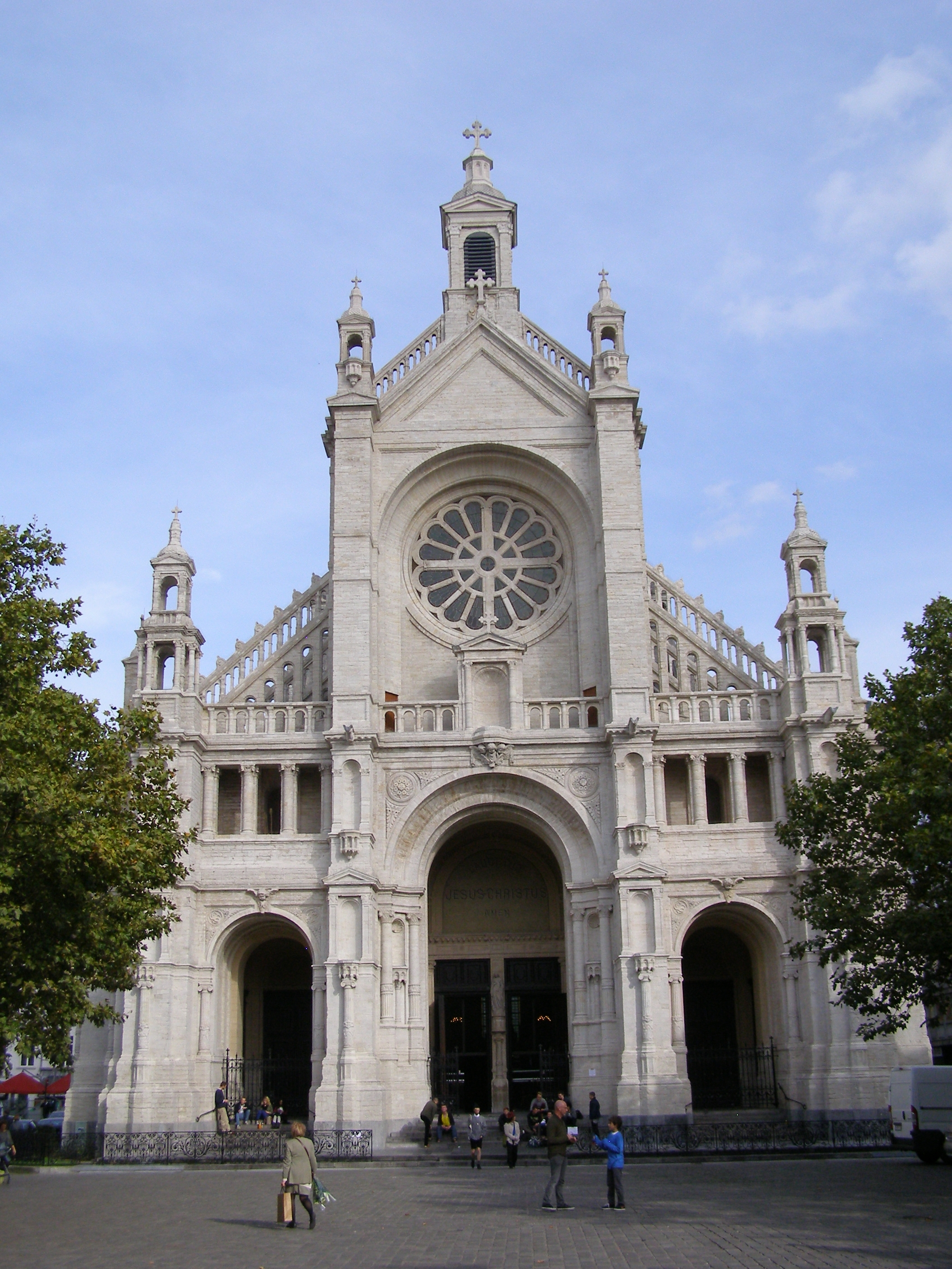 Brussels - St. Catherine church